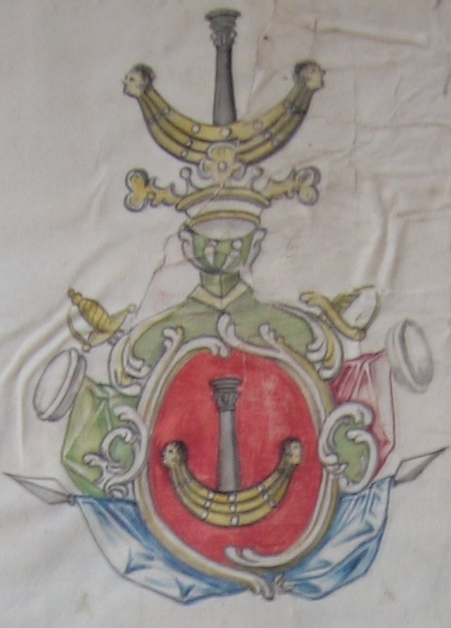 Herb Korab - 1797